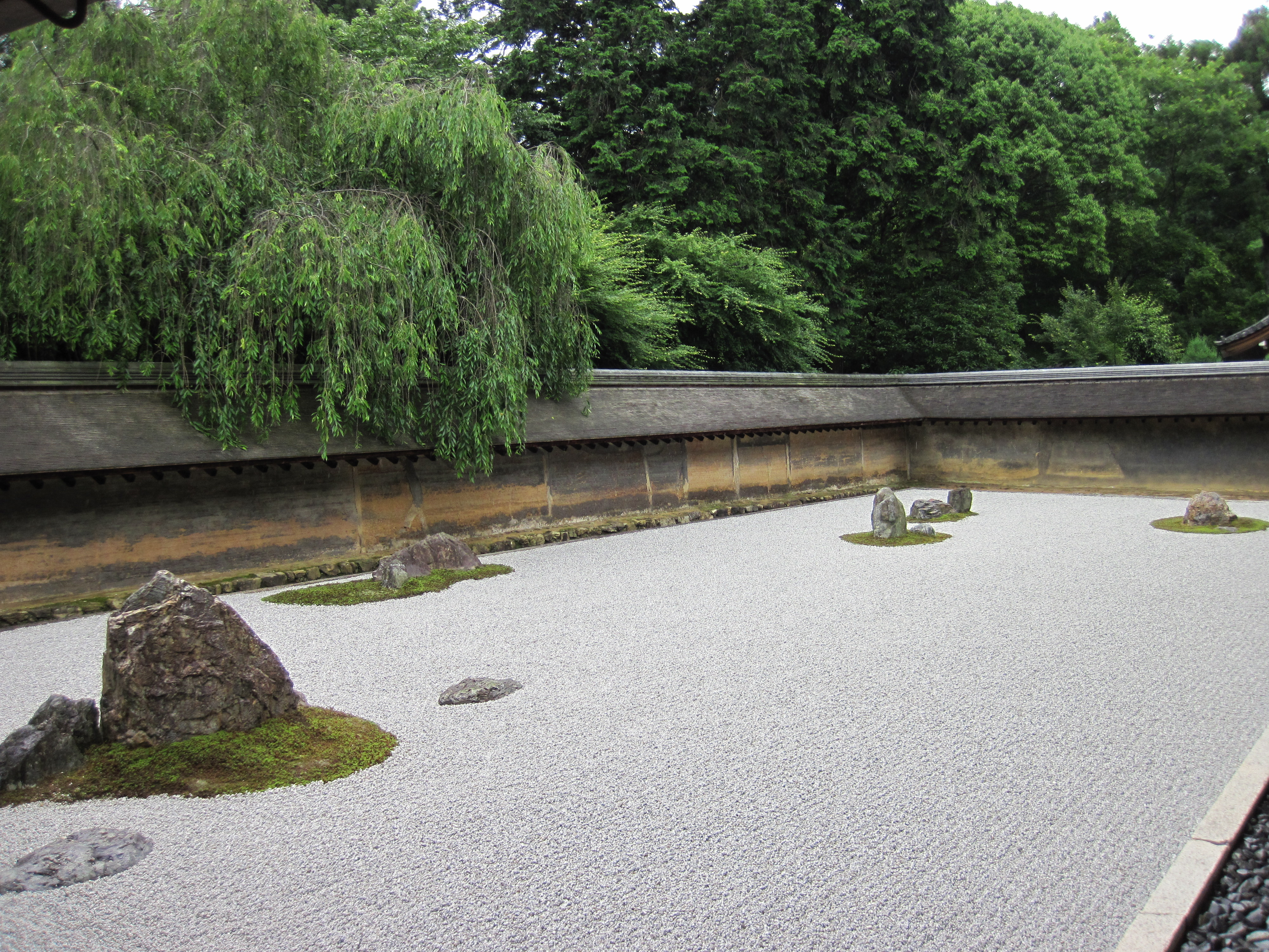 Ryoan-ji National Treasure World heritage Kyoto 国宝・世界遺産 龍安寺 京都